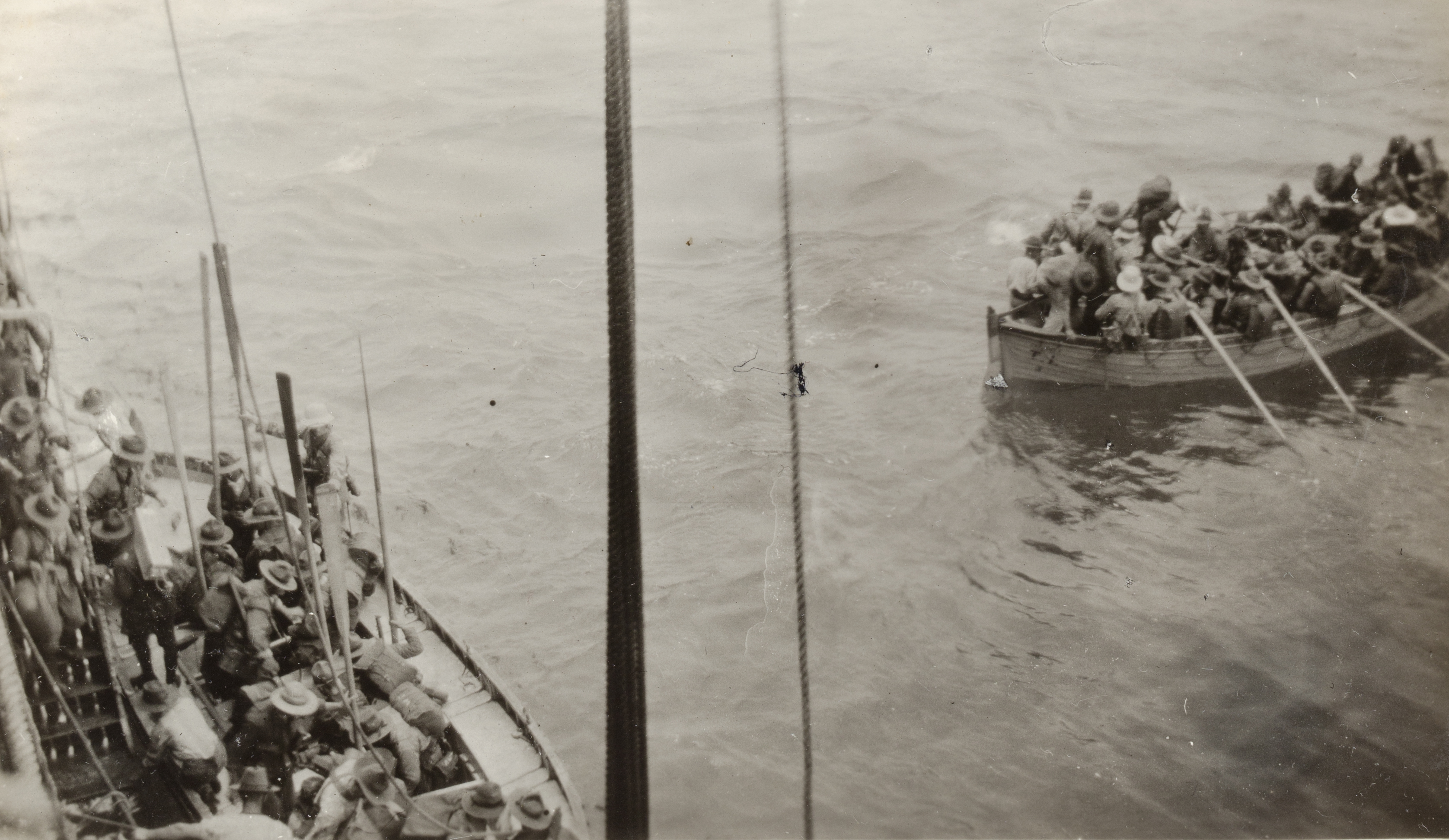 Troops landing at Herbertshöhe, from album of Photographs Used in the Book "How Australia Took German New Guinea : An Illustrated Record of the Australian Naval & Military Expeditionary Force", 1914, by F. S. Burnell State Library of New South Wales, PXA 2165